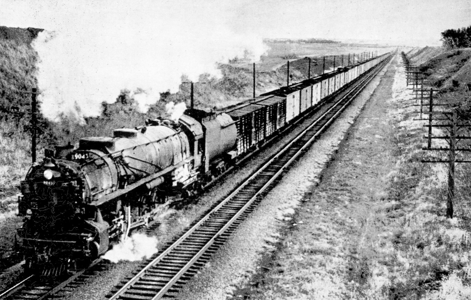 Photo of Union Pacific 9043, a 4-12-2 locomotive, pulling freight near Omaha. This was an UP class 4 locomotive, built by Alco in 1929.